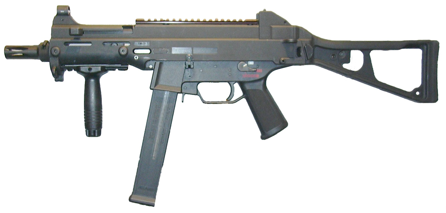 HK UMP 45